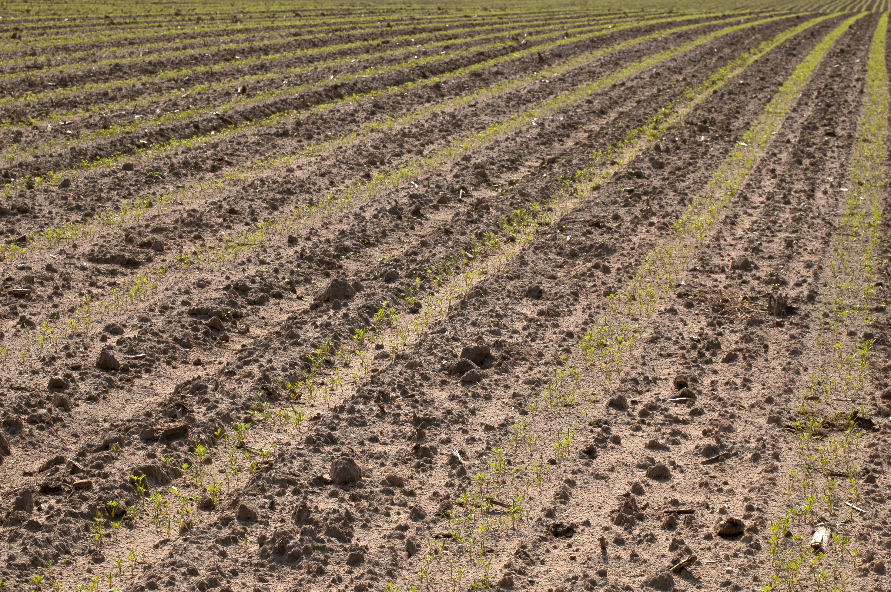 Very young plants of daucus carota on an field near Annendaal, part of the community of Roerdalen, the Netherlands.